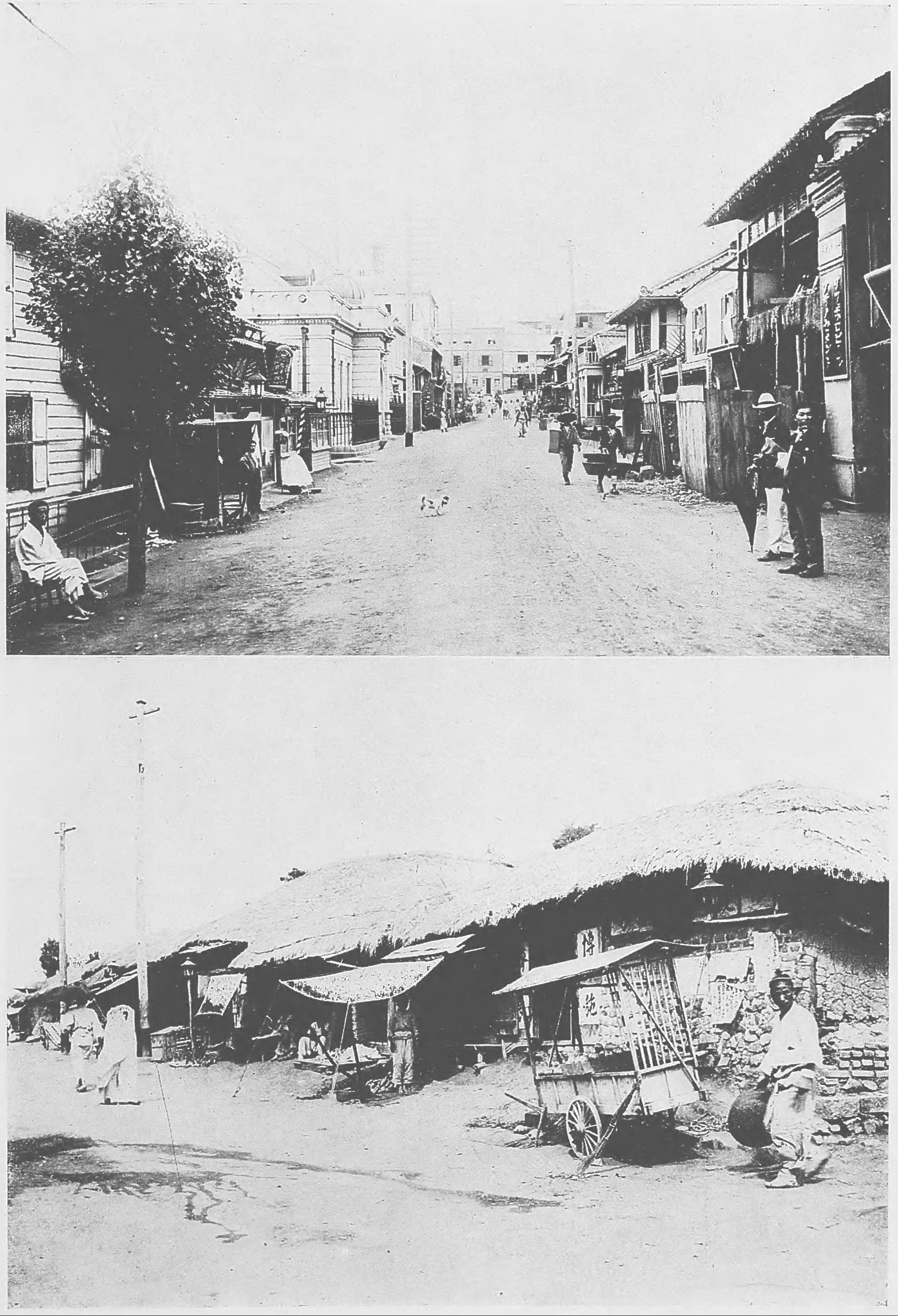 仁川ja:日本人街 仁川韓人部落 (Japan Town and Korean residents, Incheon), 1906